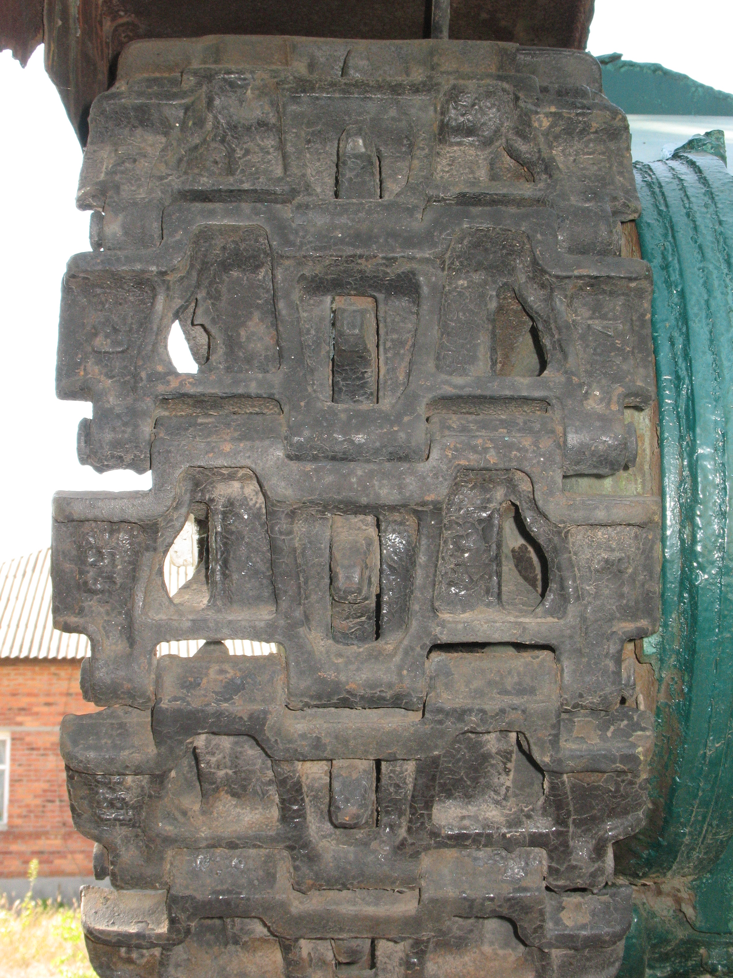 T-70M Soviet WWII tank. Continuous track. Monument in Solonitsevka.